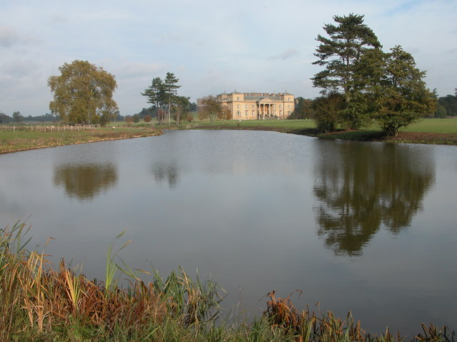 Croome Court viewed from across the Croome River